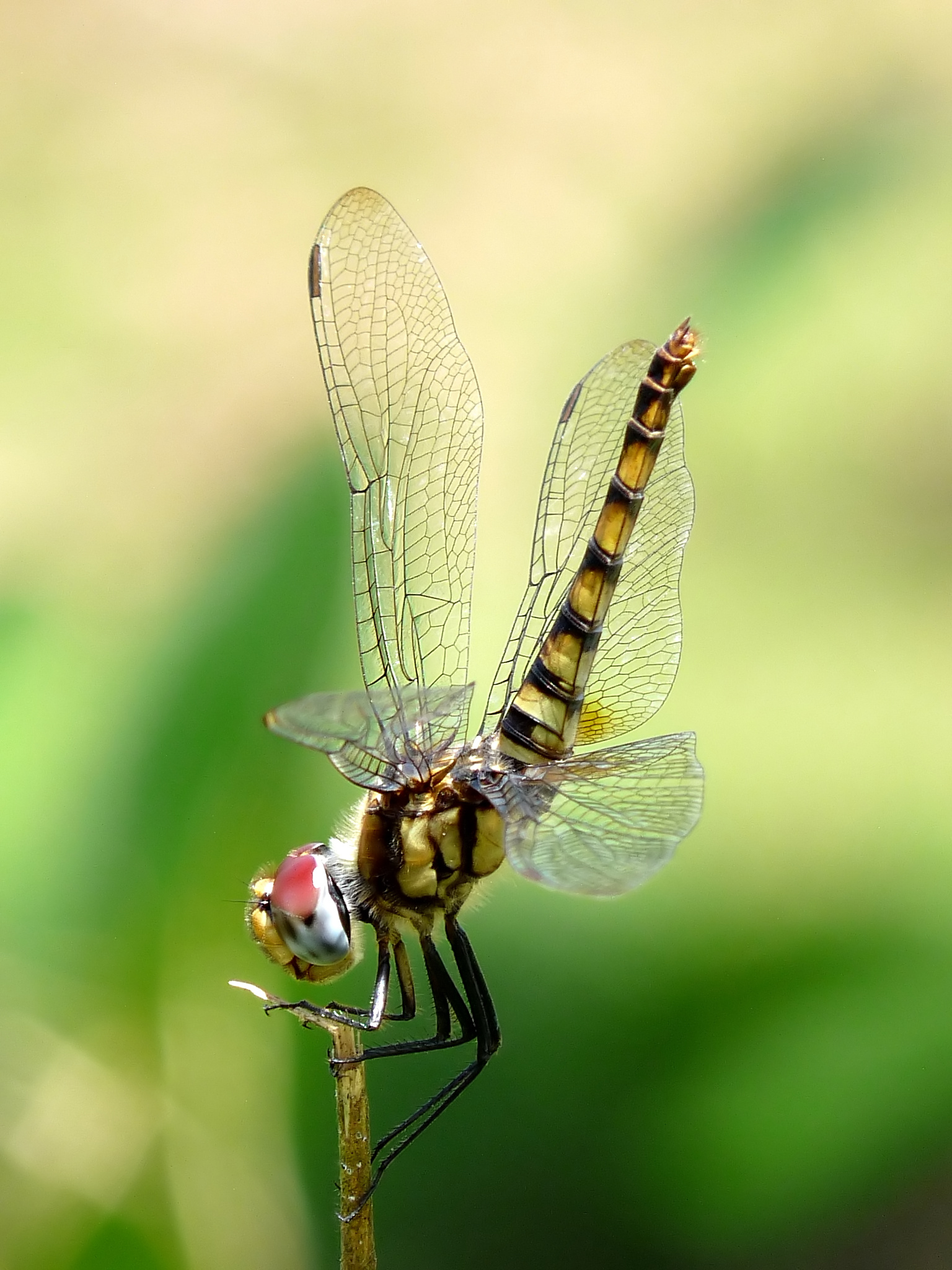 Greater Crimson Glider (Urothemis signata), Female. General colouration is rusty brown instead of bloodred. Eyes are brown above. Basal area of hind wing is dark reddish brown. Hind wing has three distinctive dark areas at the base. Abdomen is greenish-olivaceous and sometimes with black dorsal markings as in males. Taken at Kadavoor, Kerala, India.